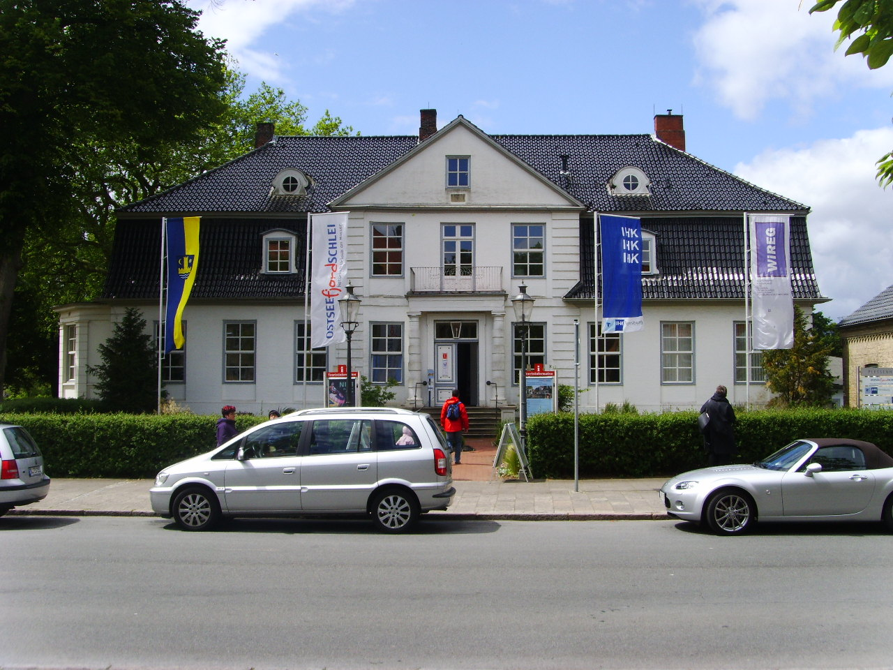 Touristinformation Schleswig, Plessenstraße 7, in Schleswig.